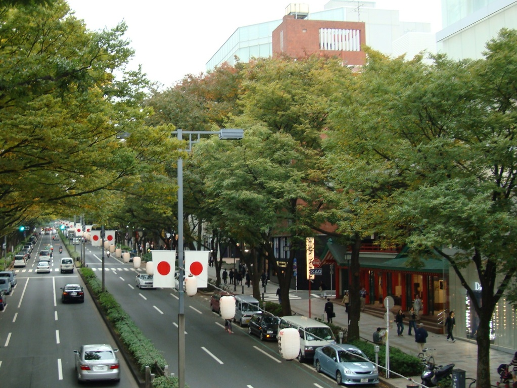 Omote-sando Street in Shibuya Ward, Tokyo